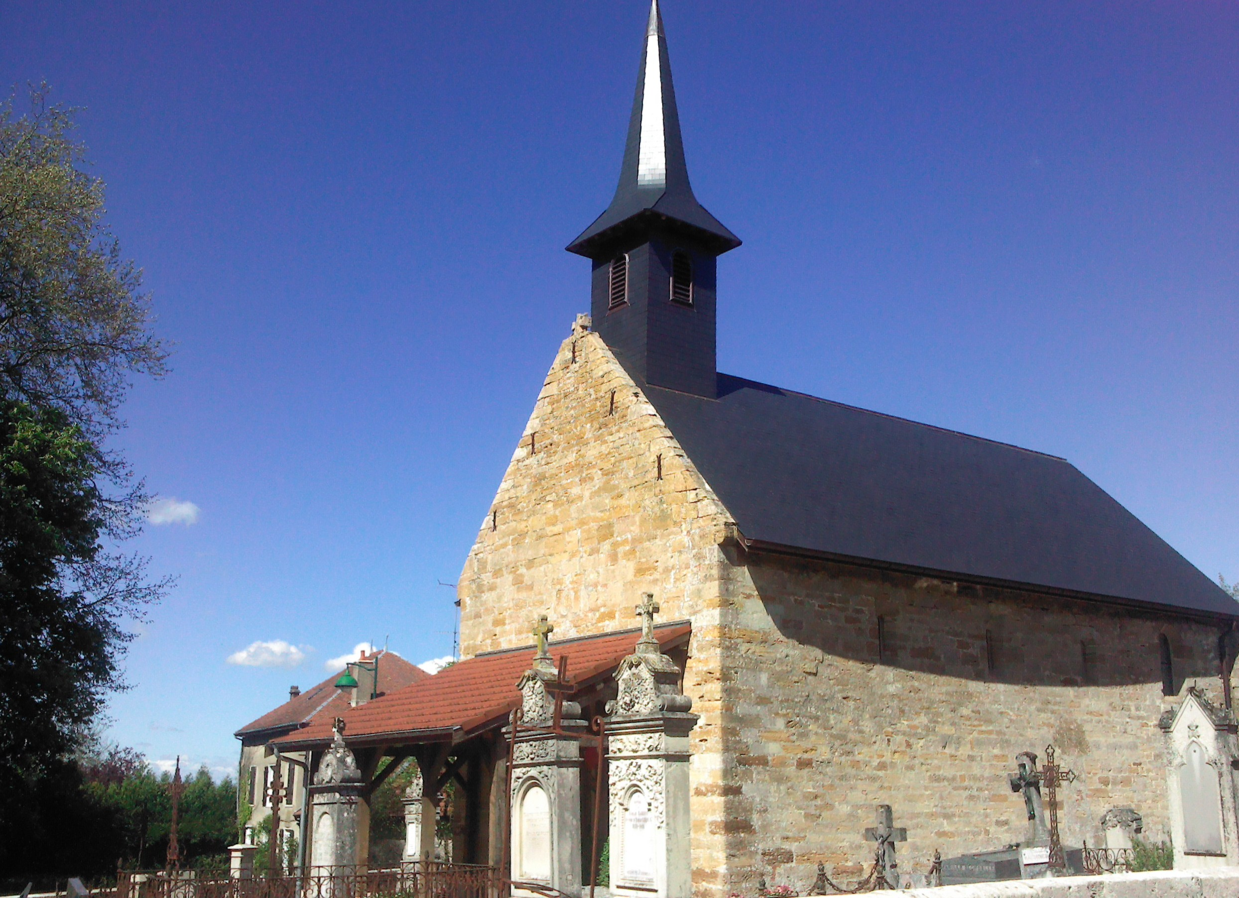 Haussignemont church